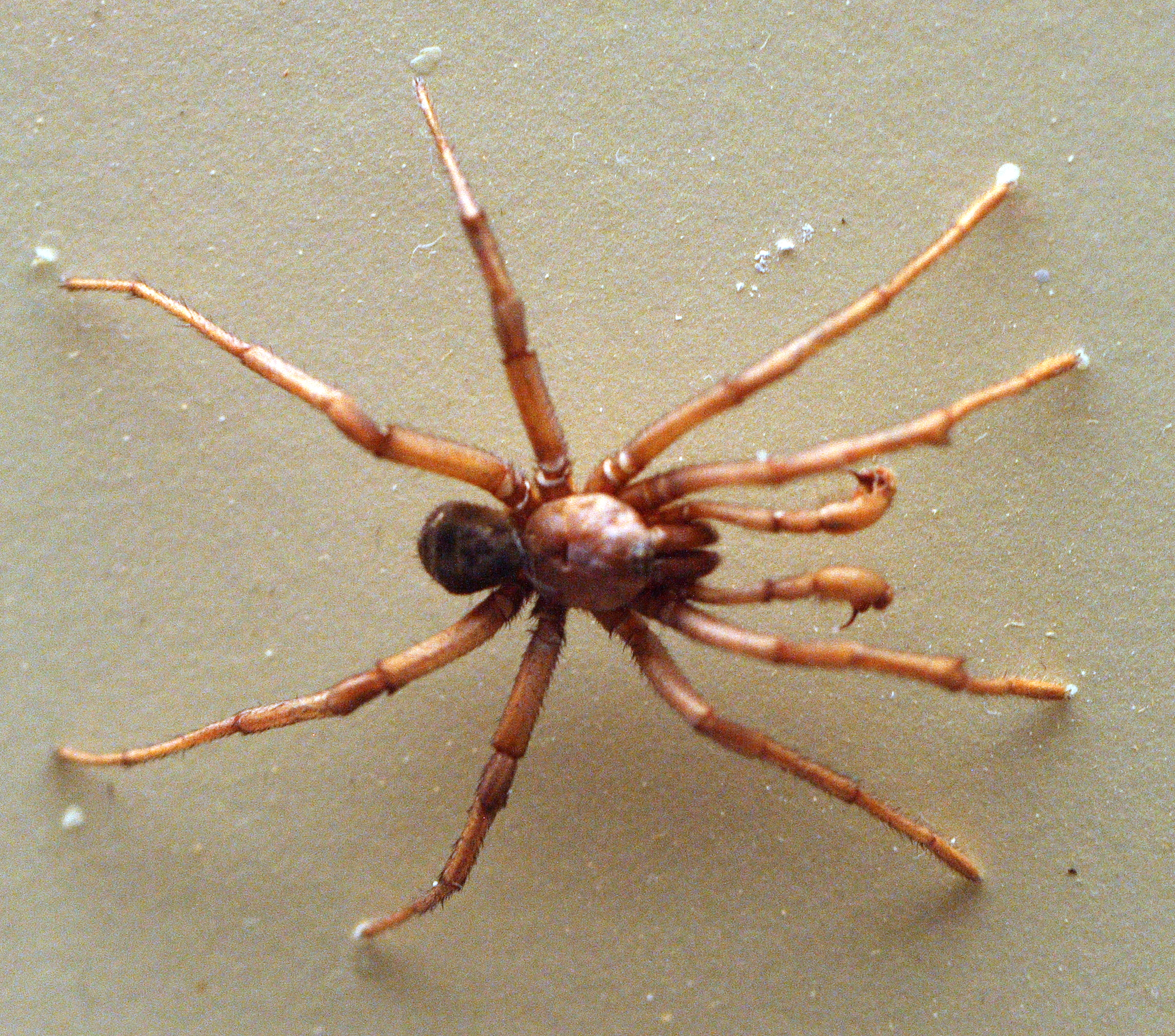 Specimen in the Australian Museum spider display.